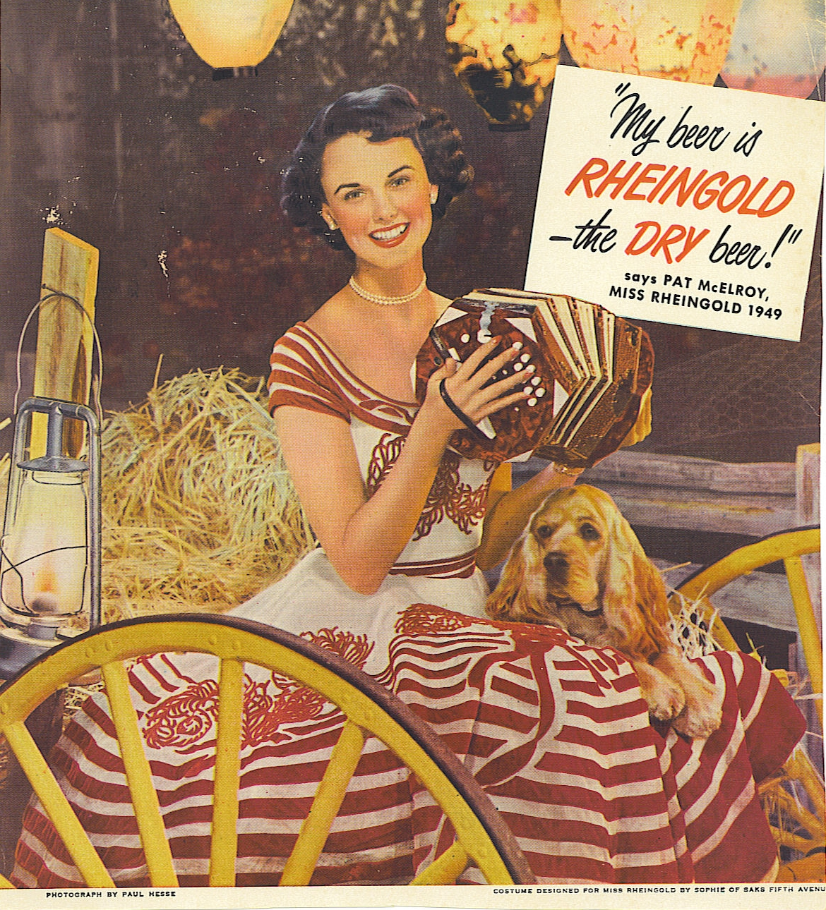 A scan of Miss Rheingold 1949 (my grandmother)